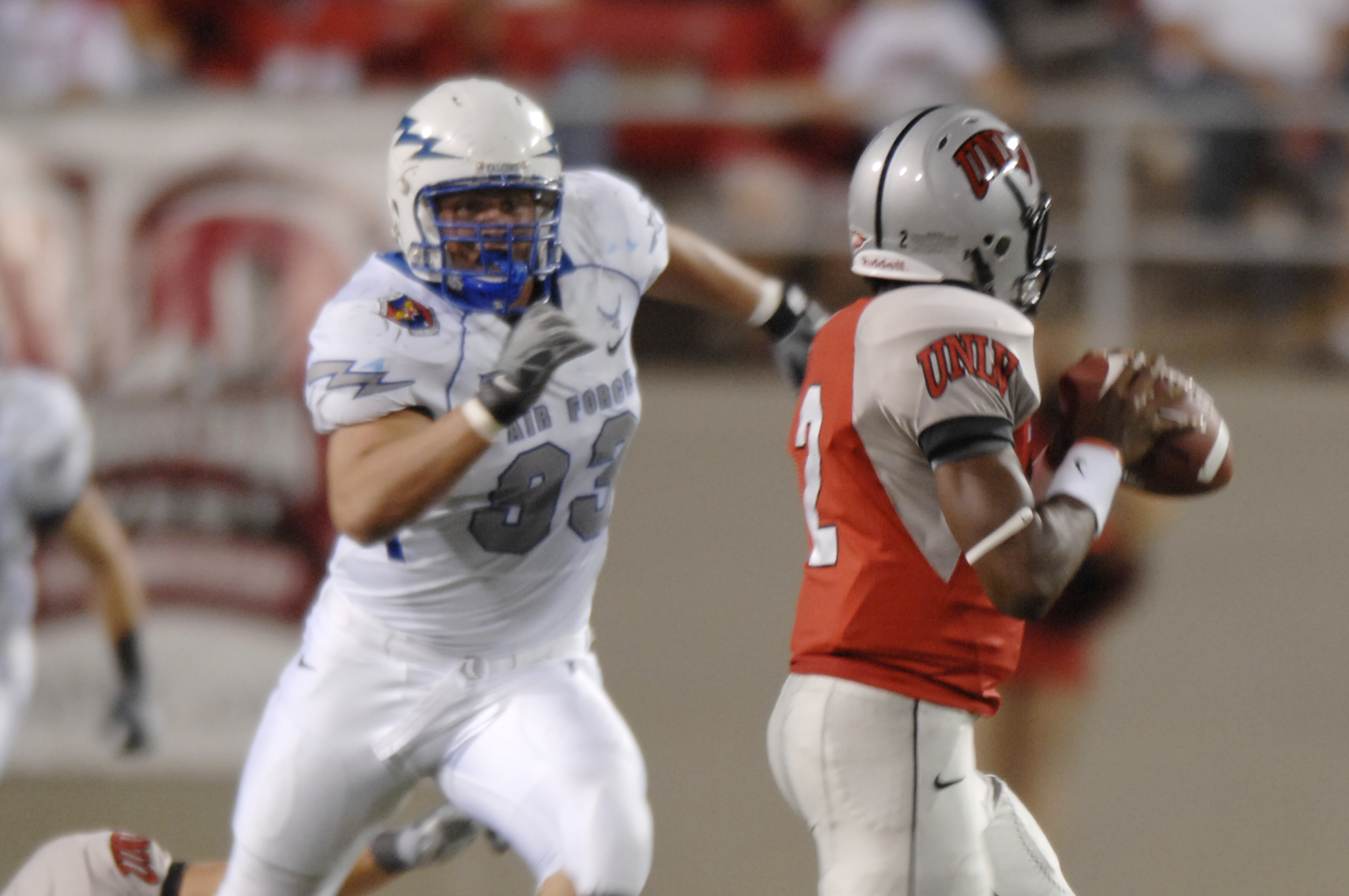 U.S. Air Force Falcon nose guard Bradley Conner closes in Oct. 18, 2008, on the University of Nevada, Las Vegas quarterback during the Air Force Academy vs. UNLV football game at Sam Boyd Stadium, Las Vegas, Nev. The Falcons defeated the Rebels 29-28. VIRIN: 081018-F-7367Y-061